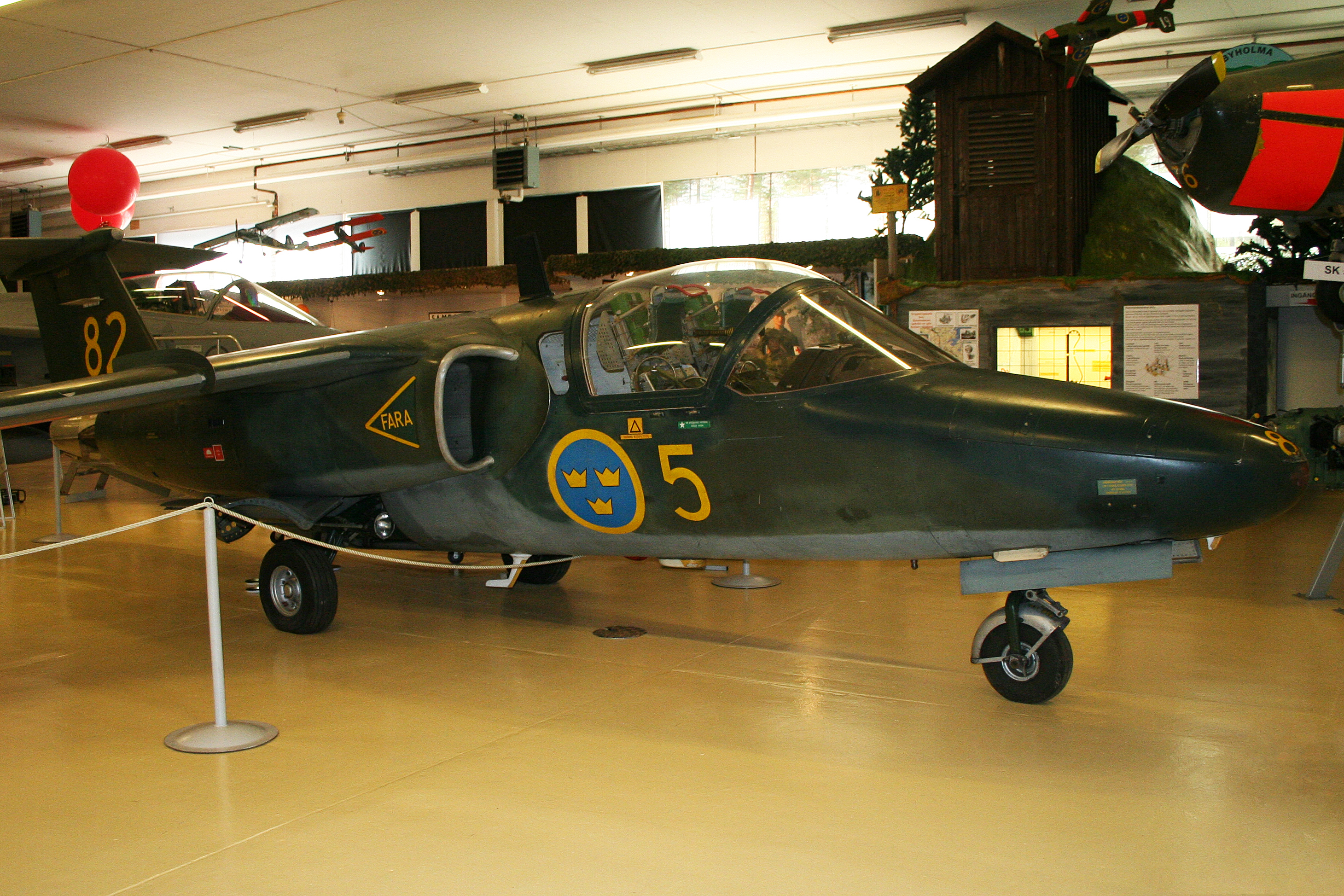 Preserved as if straight off an active ramp, this Saab 105 carries F 5 unit markings. msn 60-082. Angelholm F 10 museum. 02-6-2012